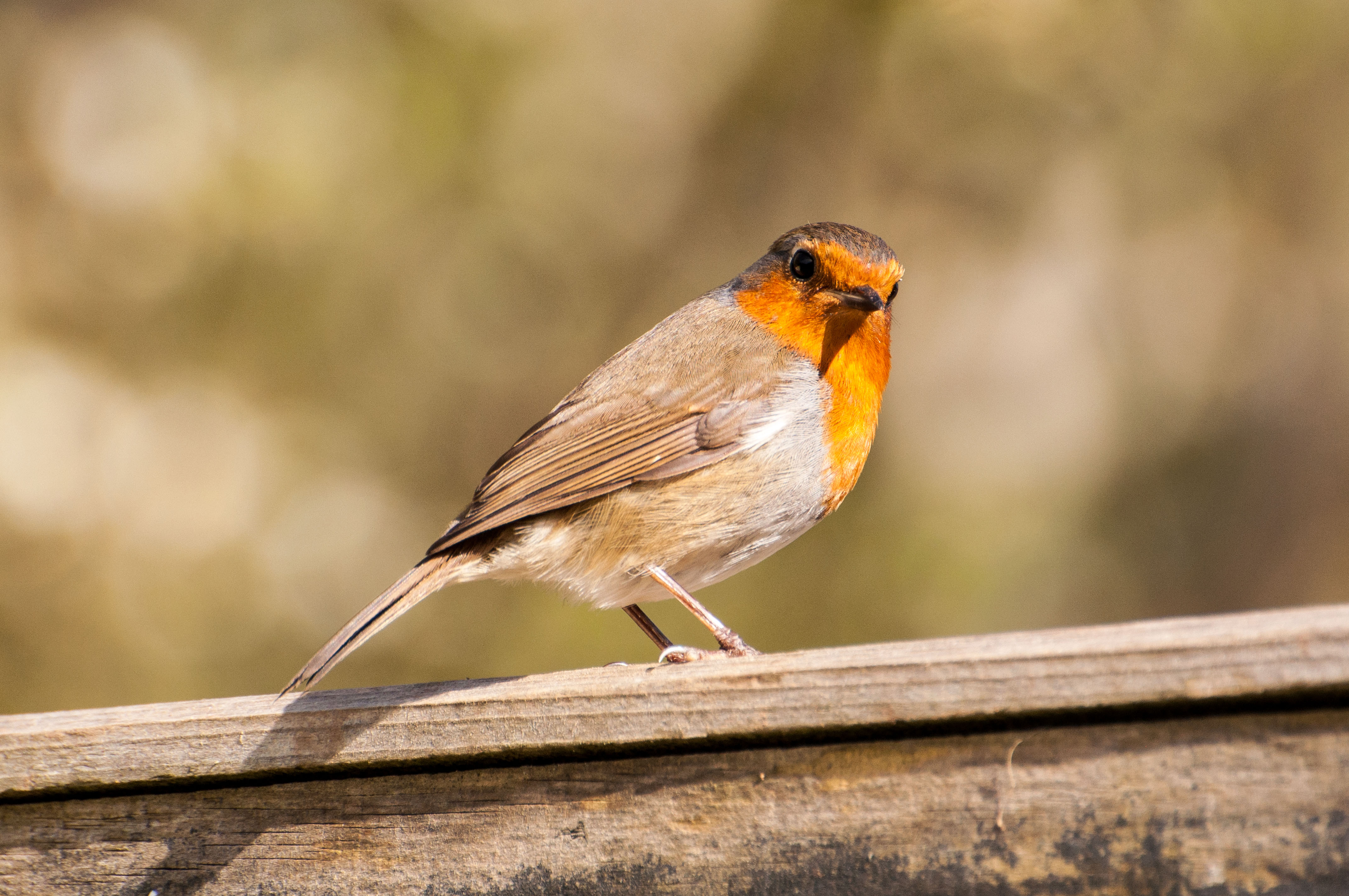 European robin (Erithacus rubecula) sitting on a fence in Bristol, UK